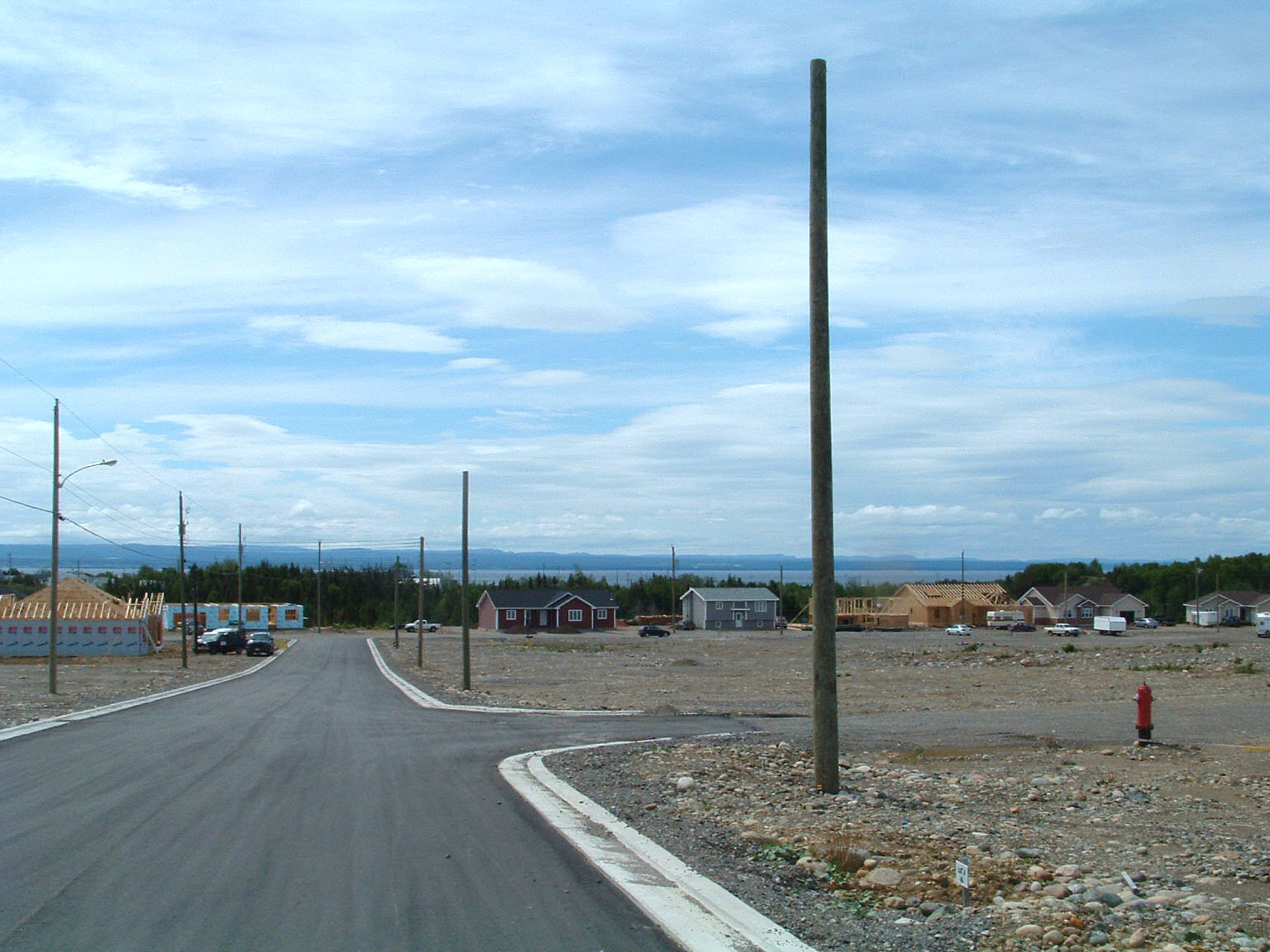 Area of New Housing being built in Stephenville, Newfoundland & Labrador